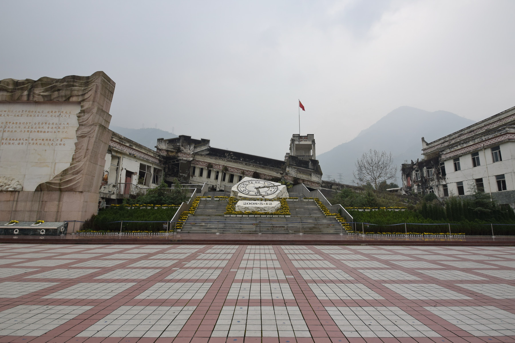 Relics of Xuankou Secondary School, Yingxiu Town, Wenchuan County